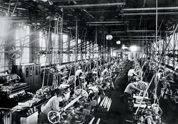 Workshop with driving belts at Krupp ca.1900